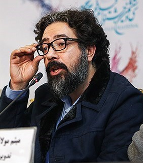 Hamed Sabet